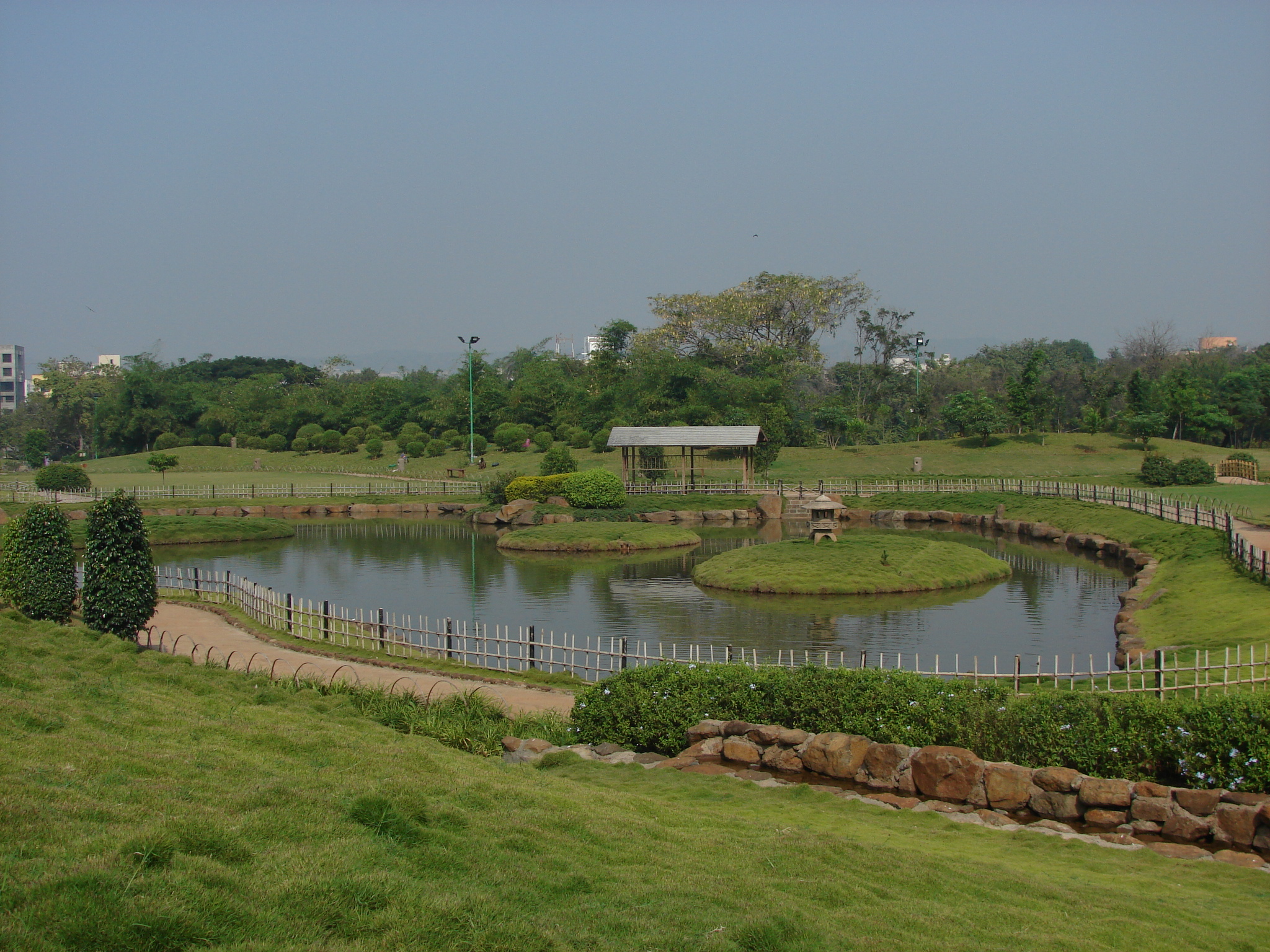 View of Pune-Okayama Friendship Garden (Landscape Garden)